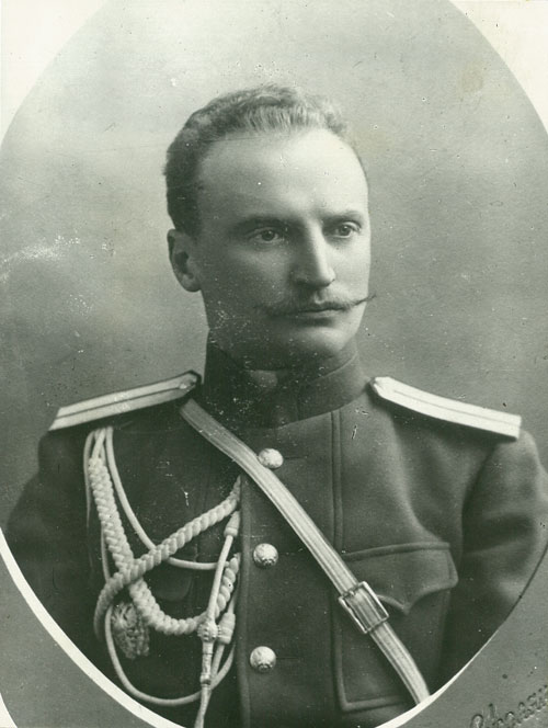 Nikolay Petin. Tashkent. 1910